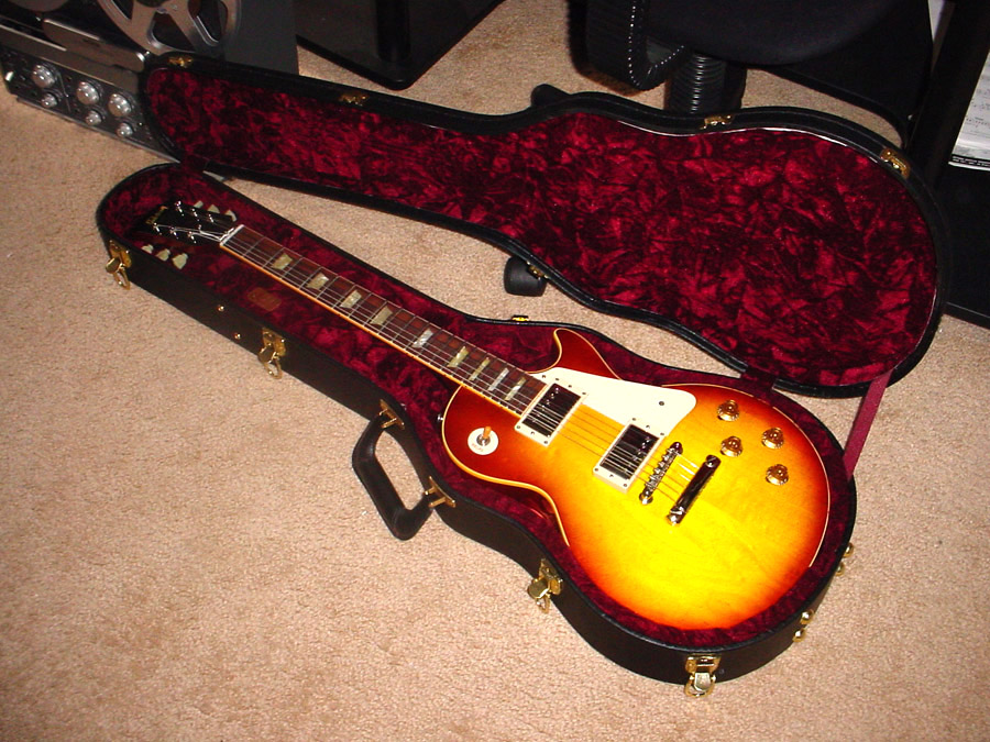 2005 Gibson '58 Reissue Les Paul in Iced Tea in original case. The reissue 1958 and 1959 Gibson Les Paul are among the most sought after new guitars on the market, with prices ranging from $2,000-$5,000. The original 1959 Les Paul is often regarded as the 'holy grail' of the Les Paul family. They have sold for more than $300,000 on multiple occasions.